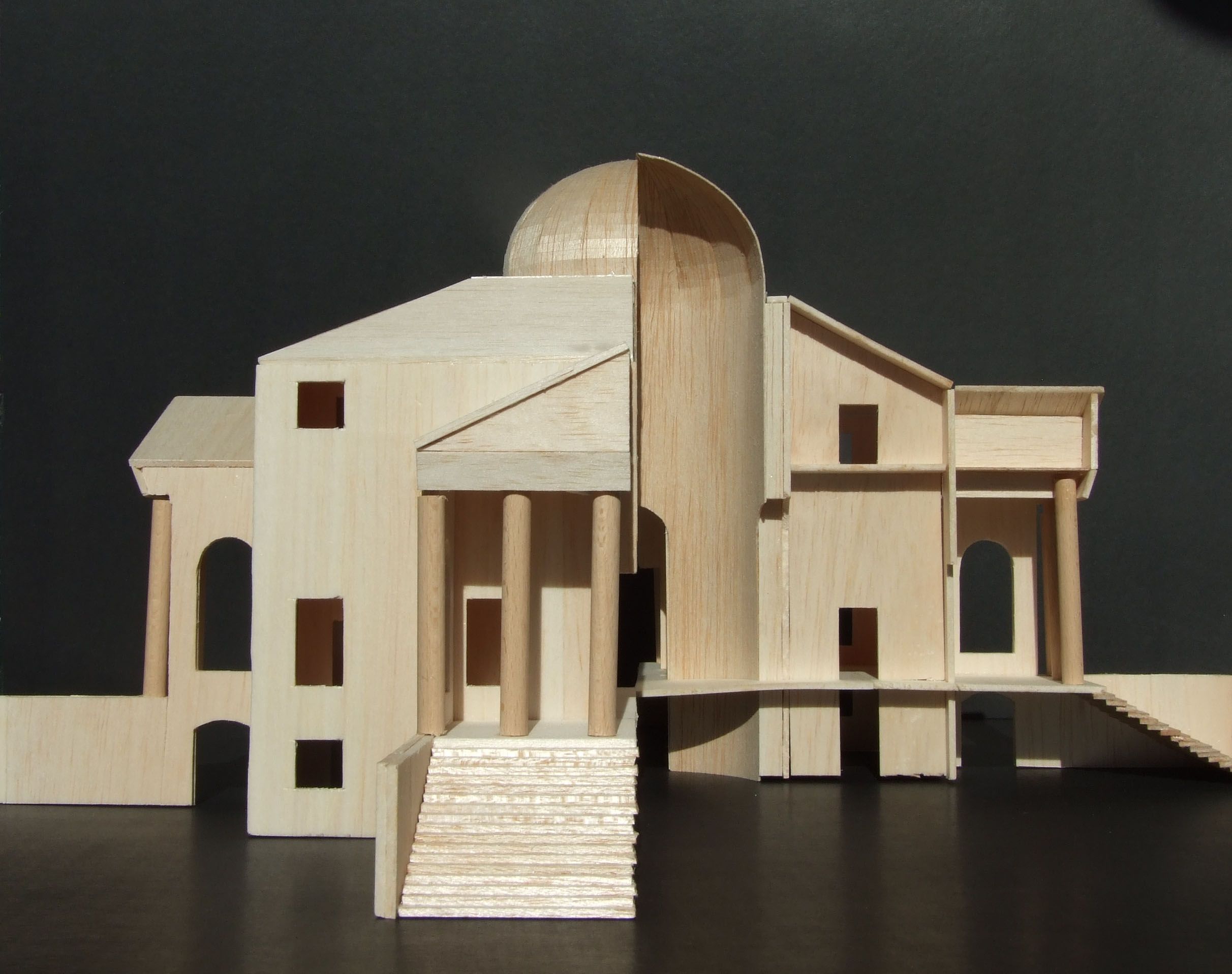 Villa Capra Rotonda scale model